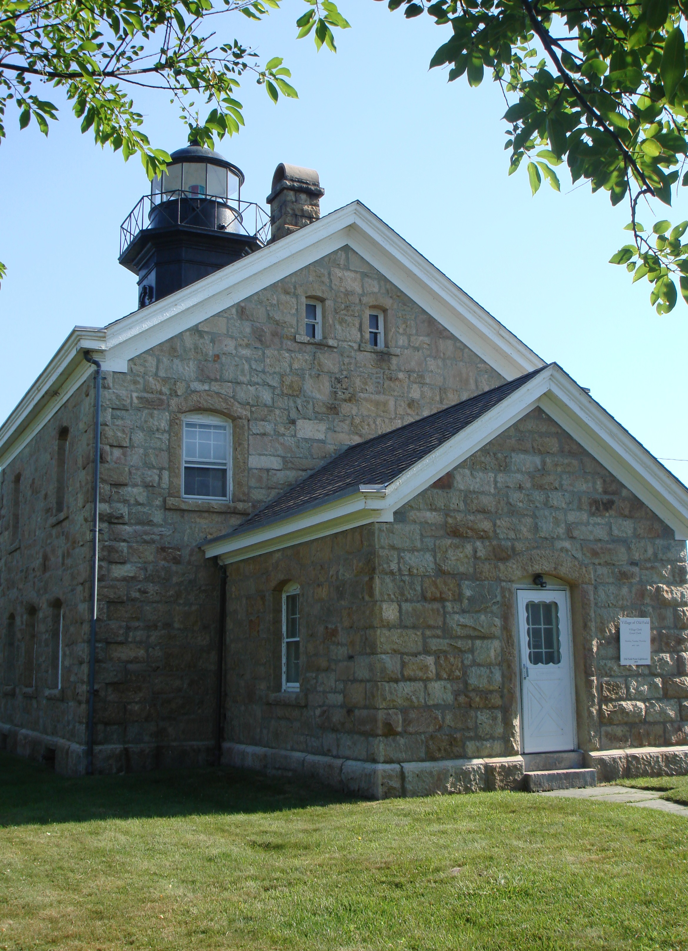 Old Field Lighthouse in Old Field, New York.